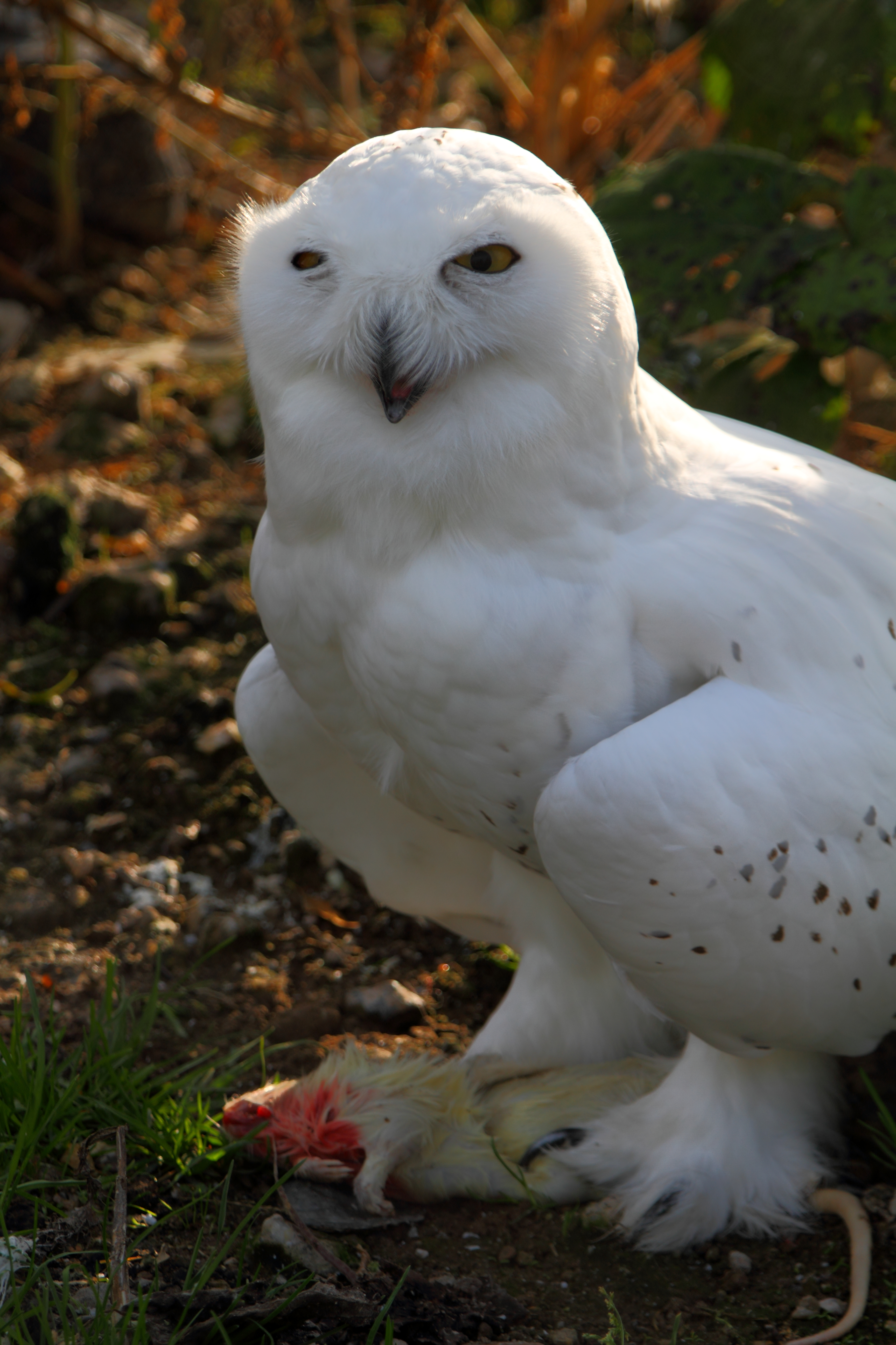 A Snowy Owl eating a rat at Diergaarde Blijdorp, Rotterdam, The Netherlands.